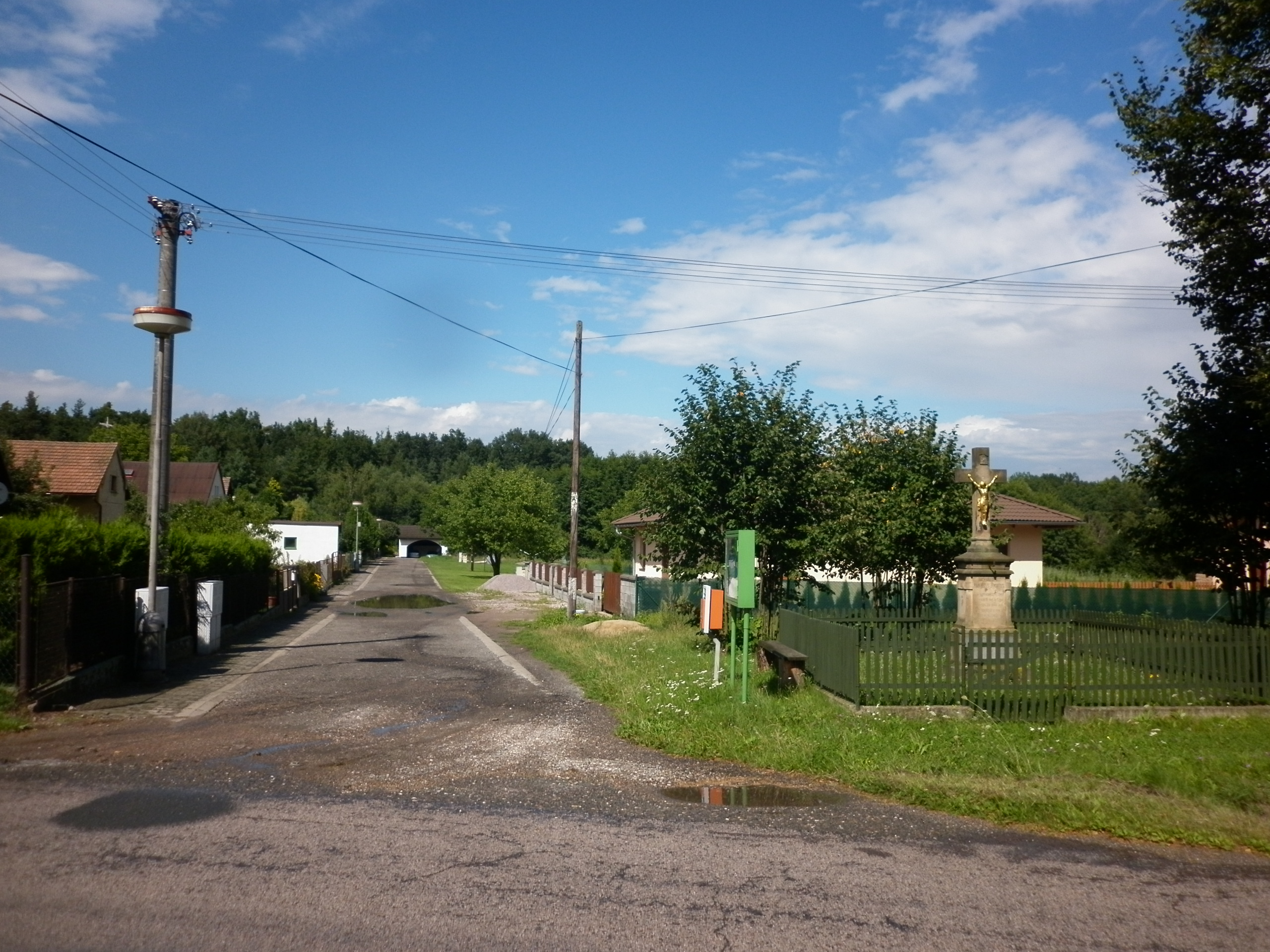 Zástava, part of Újezd u Sezemic, in Pardubice District